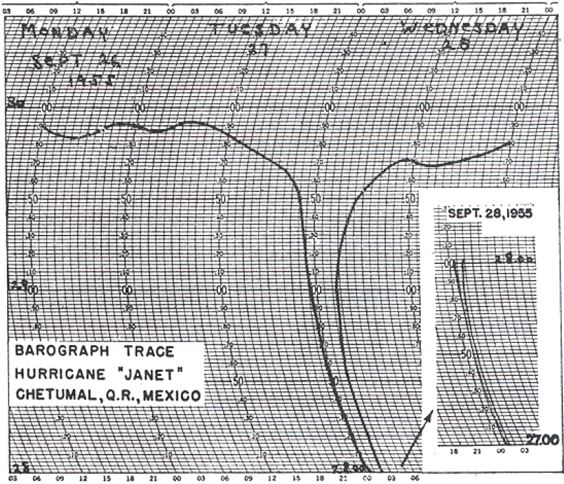 Chart of barometer measurements from a barometer in Chetumal, Mexico, during the passage of Hurricane Janet. The main chart shows the pressure falling to 28" inHg, and the inset is artificially constructed by the Weather Bureau based on a reading of 27" inHg, which at the time ranked as the fourth lowest reliable barometric pressure ever recorded near mean sea level.